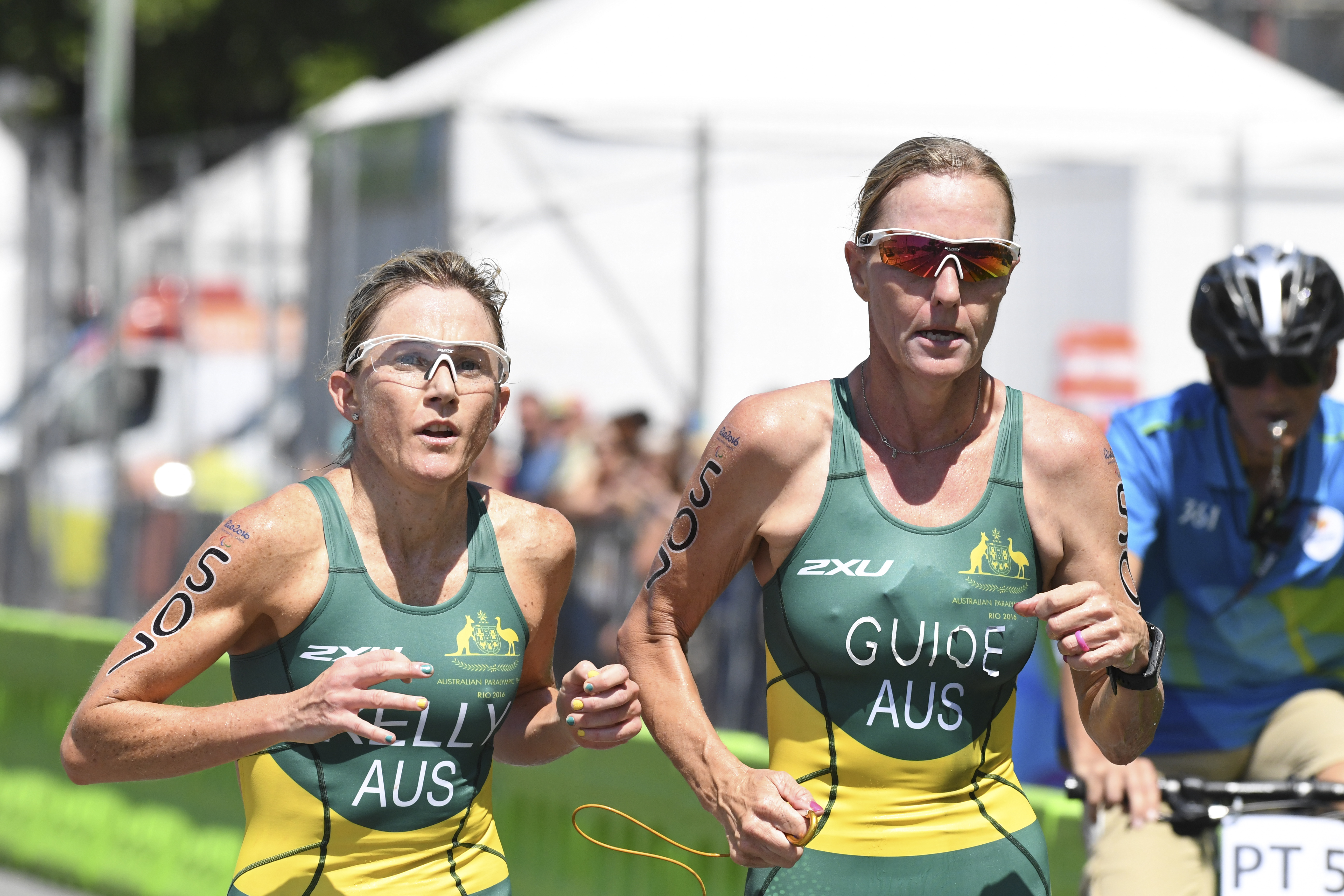 Katie Kelly & her guide Michellie Jones - Rio de Janeiro - class PT4, PT2 e PT5, in Copacabana. category PT5. (Tânia Rêgo/Agência Brasil)